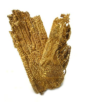 Gold Locality: Round Mountain Mine, Round Mountain District, Nye County, Nevada, USA (Locality at ) Size: miniature, 3.5 x 2.3 x 2.2 cm Gold MORE 3-DIMENSIONAL IN PERSON! TRULY! At first glance, this gold exhibits leaf like qualities, but closer scrutiny determines that ALL the surfaces are made mostly by distorted cubes growing one upon another en echelon along spinel twins tha tru nthe length of each leaf! There is even one area where hopper growth octahedrons are visible. This allows for displaying in every direction. Closeup photos of this specimen will reveal crystallization patterns that will mesmerize the owner...it is another very special miniature!